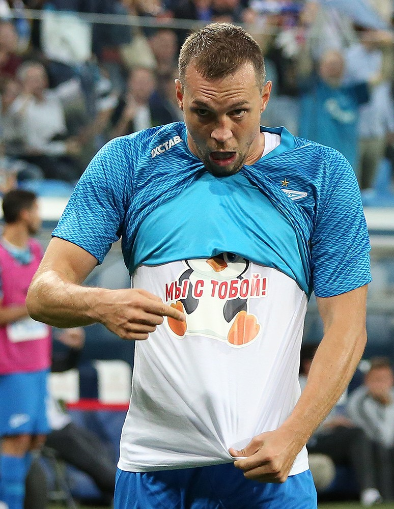 Artem Dzyuba